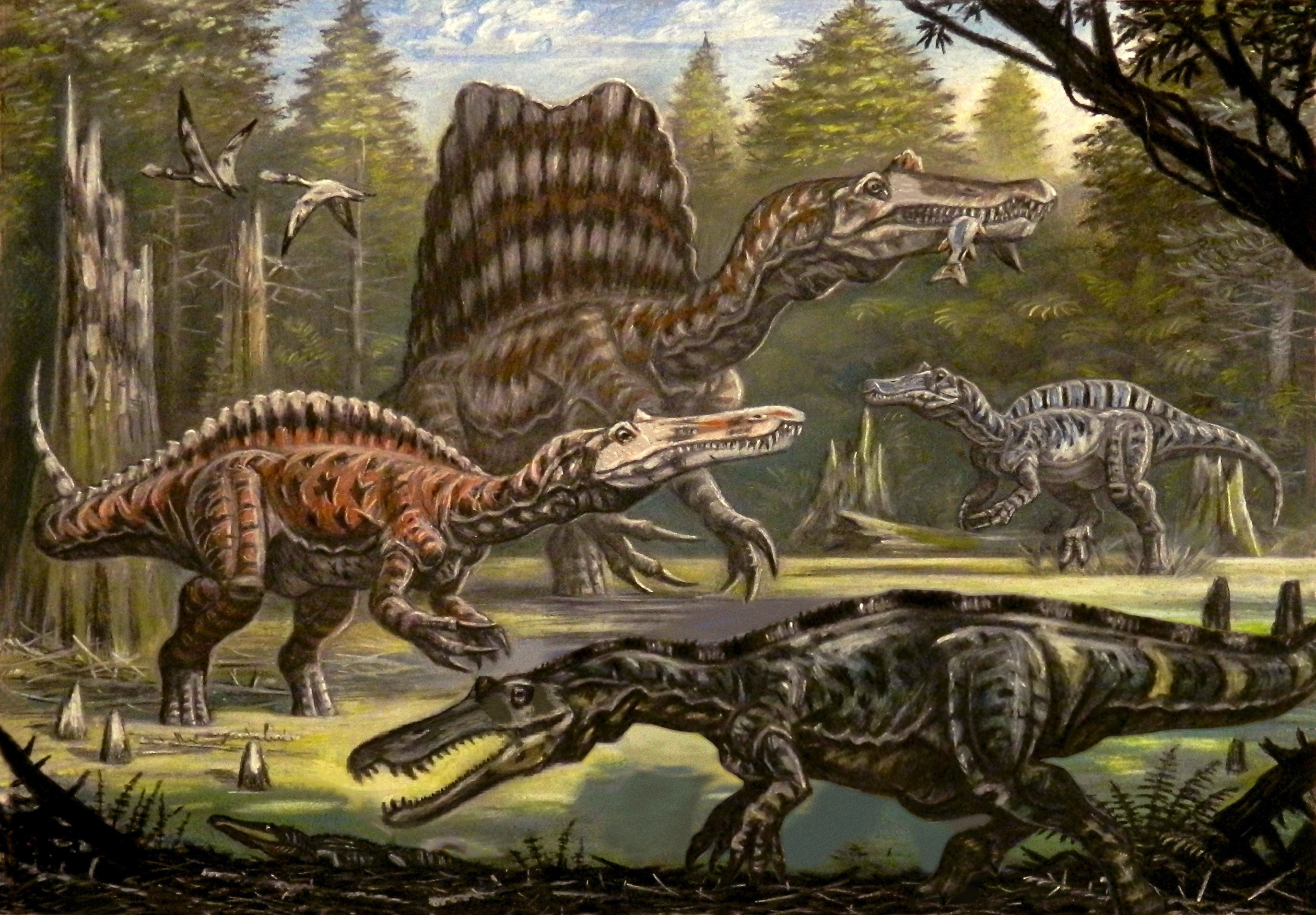 Anachronistic comparison of four spinosaurid species, clockwise from the left: Suchomimus tenerensis, Spinosaurus aegyptiacus, Irritator challengeri, and Baryonyx walkeri.